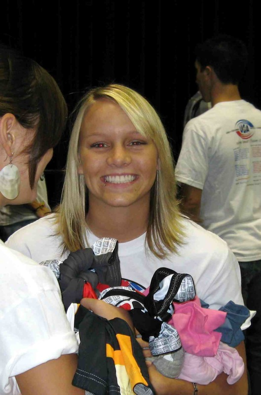 Emily Scott at the 2007 Indoor National Championships (inline skating)